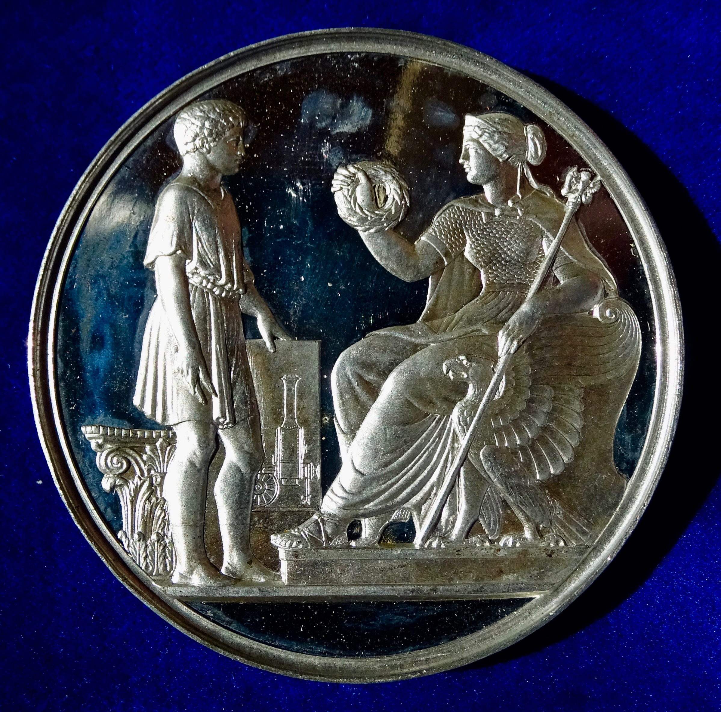 Prussia 1856, Award Medal for Students of today's Technical University Berlin. Sn- Test Strike. Pewter medallion, d. = 56 mm. Friedrich Wilhelm IV, King of Prussia, 1840 - 1861 Head r. within wreath, around: "FÜR ERFOLGREICHEN FLEISS AUF DER BAUAKADEMIE ZU BERLIN MDCCCLVI"/ The at r. seating Borussia pointing a wreath to an at l. standing student with a design of a locomotive in his l. hand. Sommer K 129 var.; Pniower 627 (Cu). Condition: Almost UNCIRCULATED.